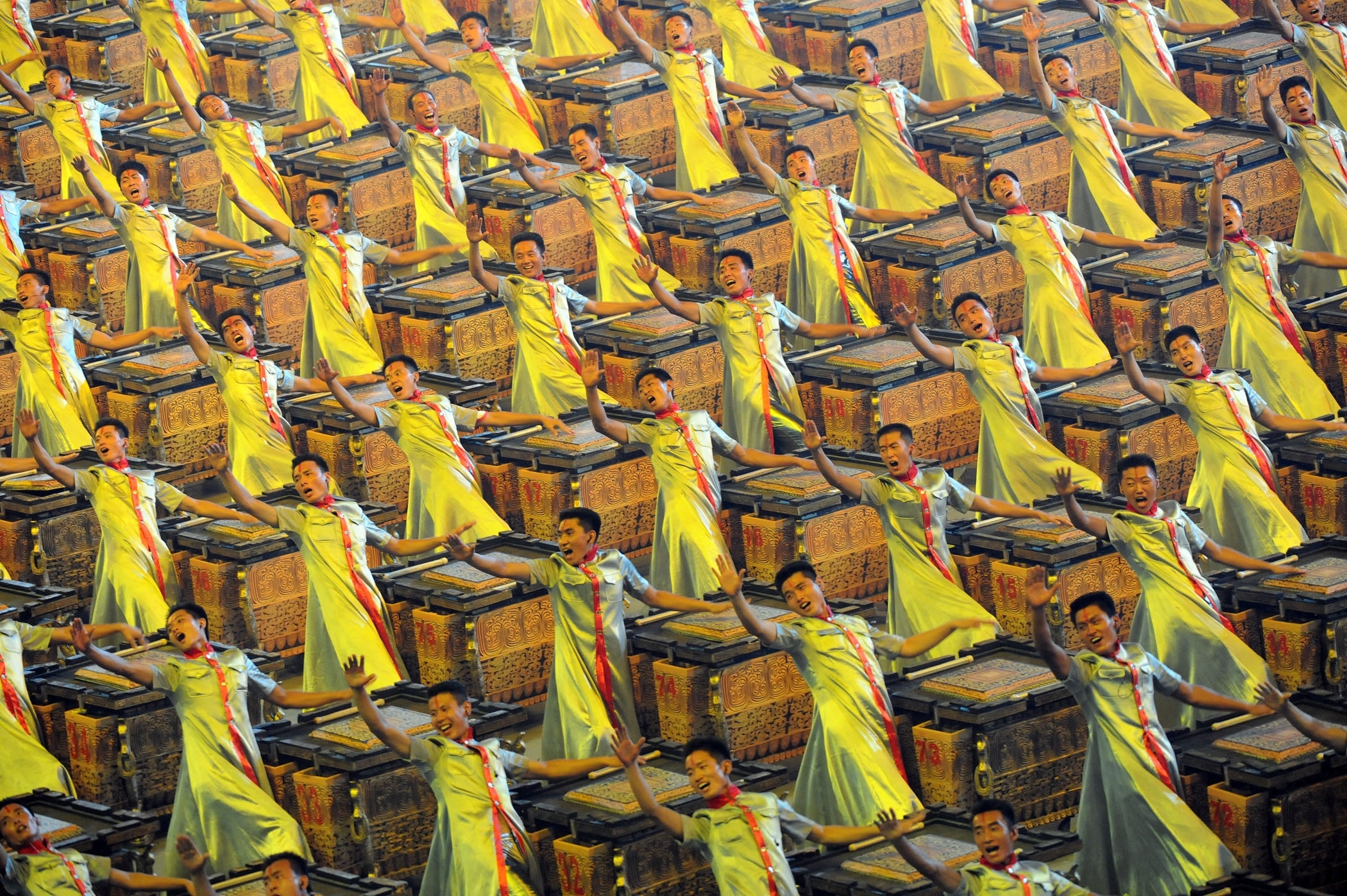 2,008 fou performers produce the sound of rolling spring thunder to greet friends from around the world to the Opening Ceremony of the 2008 Summer Olympic Games Aug. 8 in Beijing. The fou is the most ancient Chinese percussion instrument made of clay or bronze.